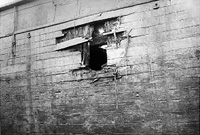 The hole in the ship Amalthea after the bomb placed there by Anton Nilson in Malmö, Sweden, 1908.